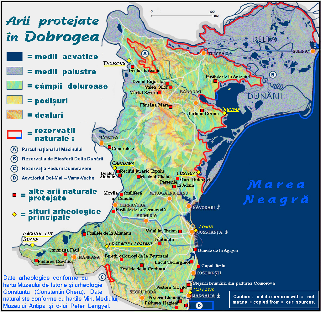 Map of the protected archaeological & natural areas of romanian Dobruja (only for Fappiefh)